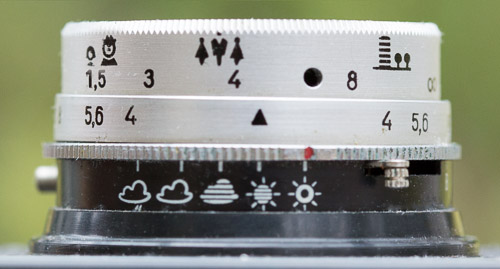 Focus ring of an old point-and-shoot camera.